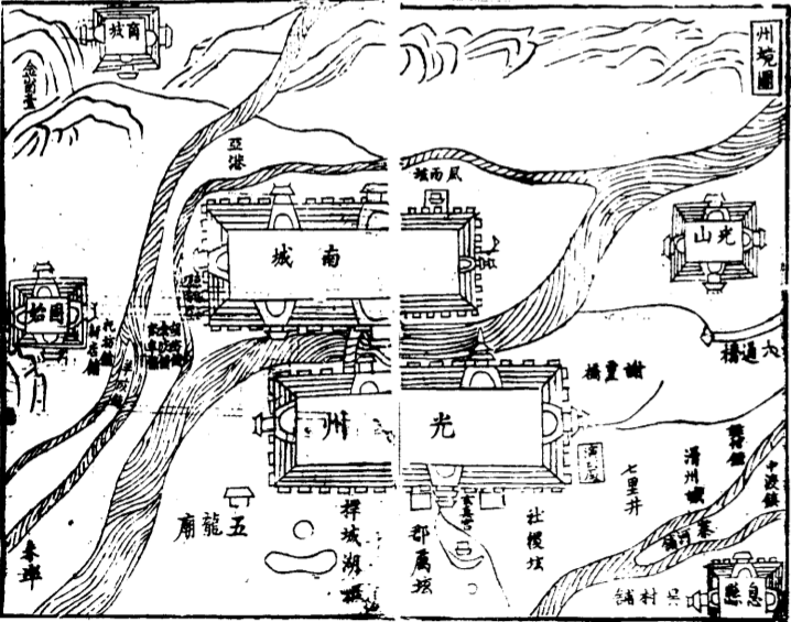 An map of Guangzhou (Huangchuan today)